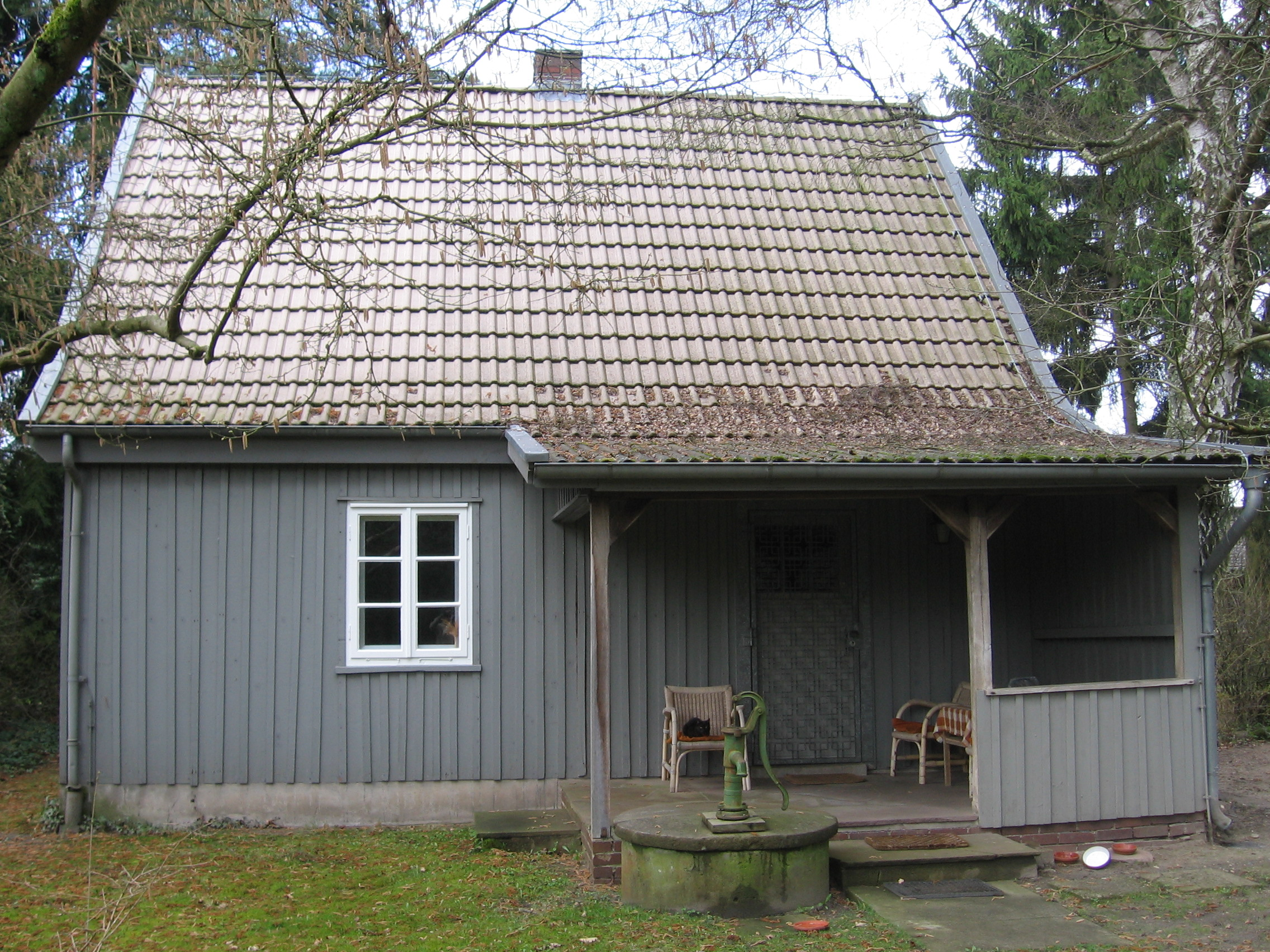 House of the German writer Arno Schmidt in his home village Bargfeld. 17th April 2006.